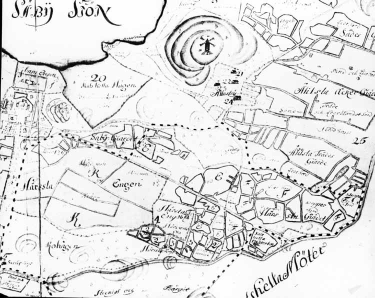 Herrestads gård, Järfälla socken, från 1686. Del av karta över Säby, Molnsättra och Ålsta från 1686 av lantmätaren Peter Brodthagen (död 1710).